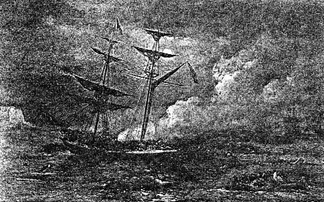 "Night battle of the Privateer Brig "General Armstrong" of New York" by Emanuel Leutze